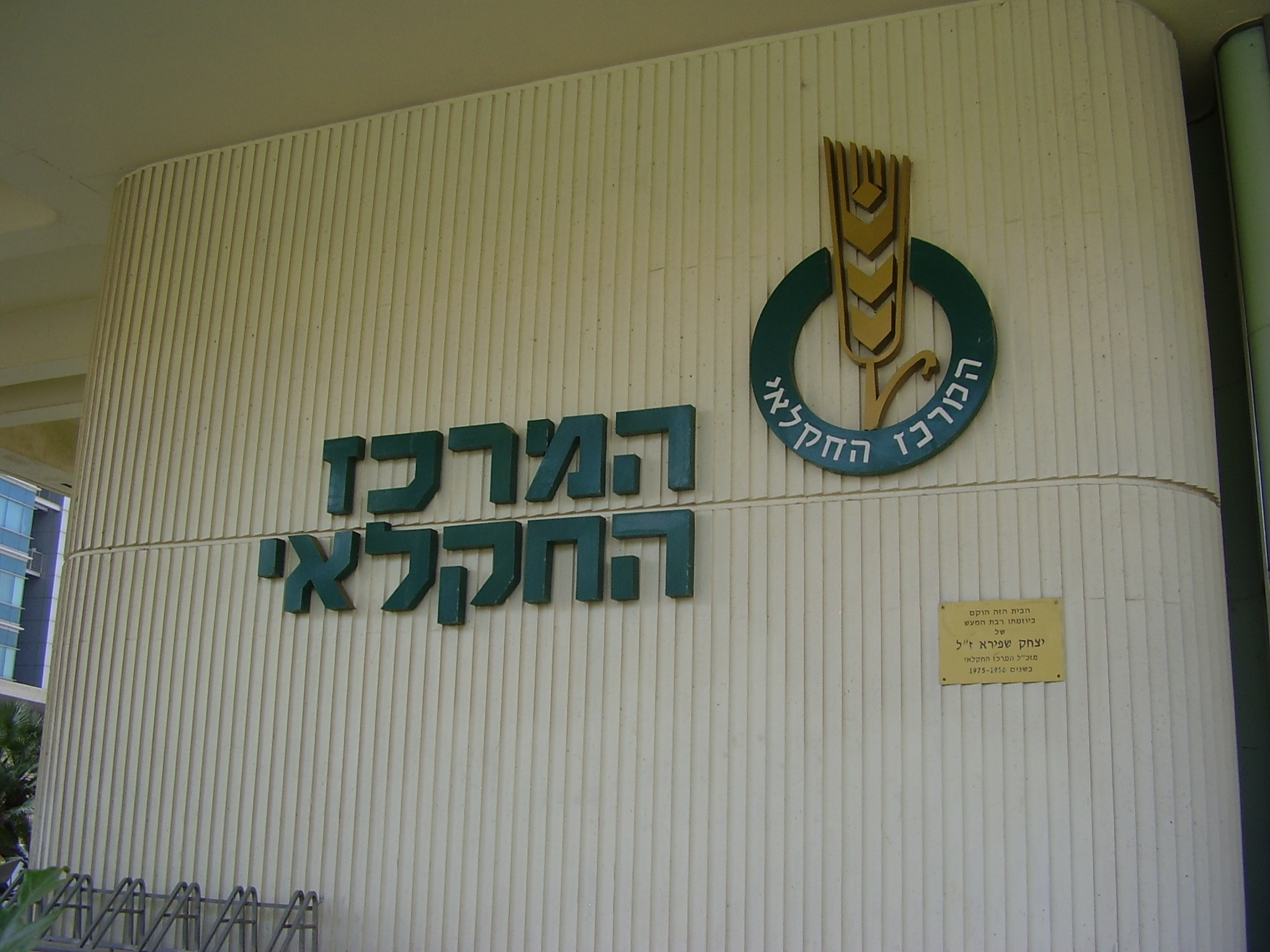 the agricultural center in tel aviv